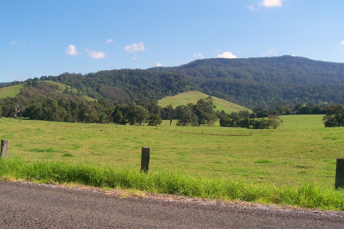 Foxground valley scenery